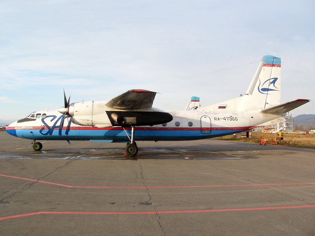 Old color of livery.